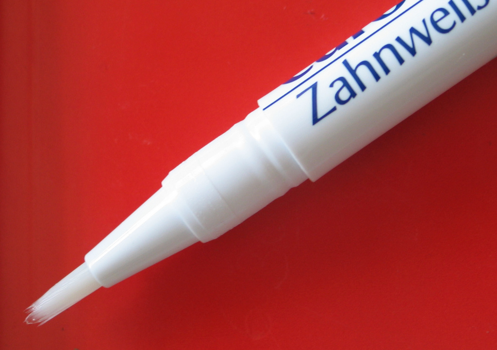 tooth whitener for home use